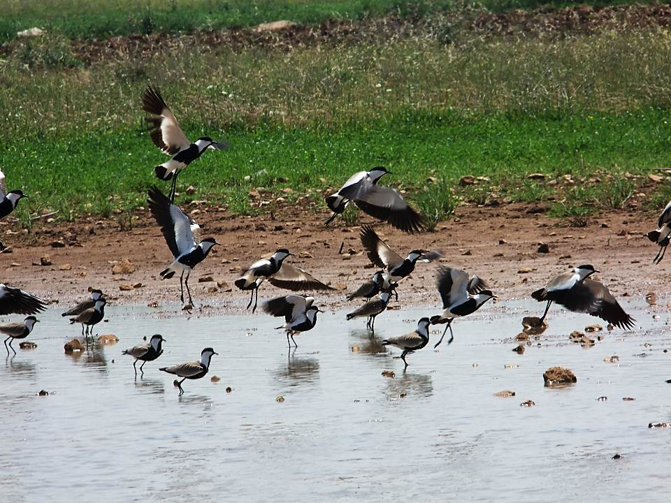 Ebn amer valley jenin